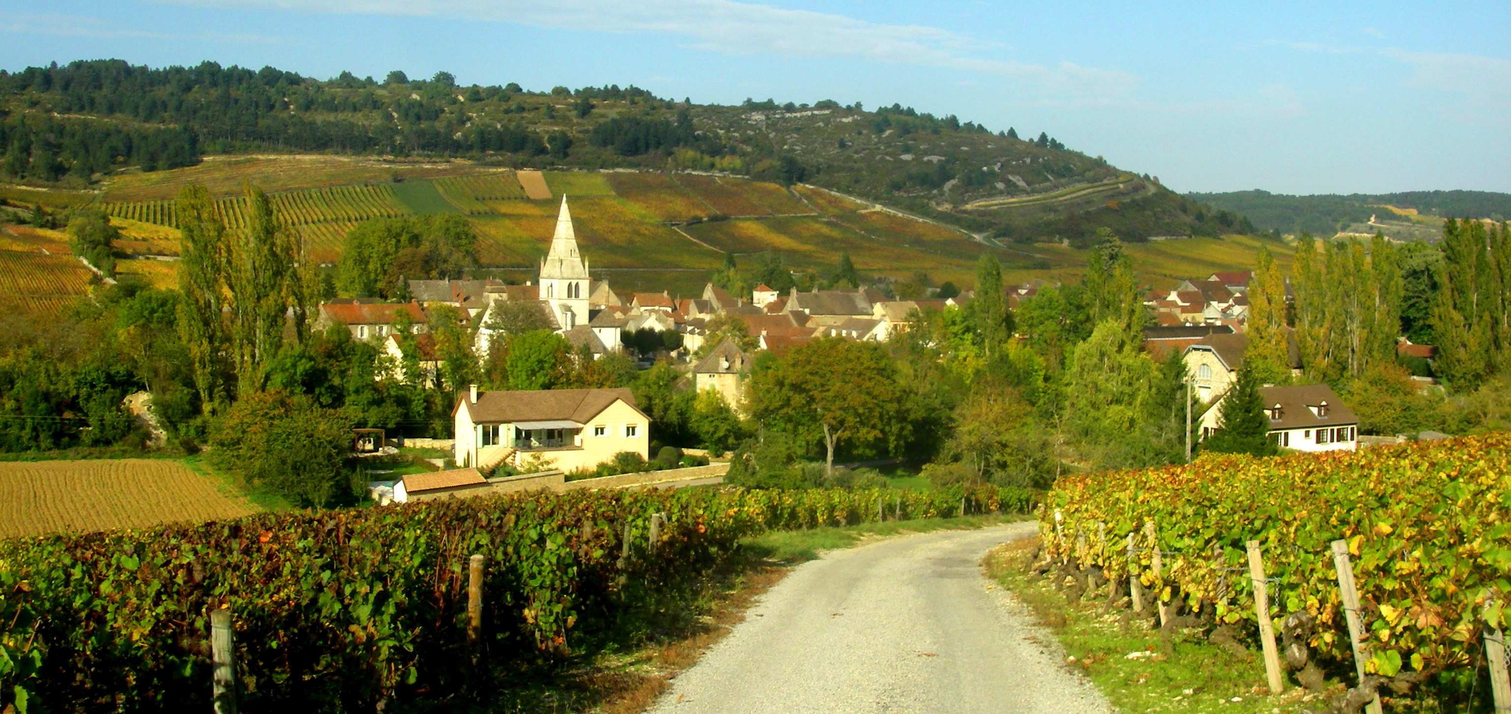 Auxey-Duresses's landscape, Côte d'Or, Burgundy, France